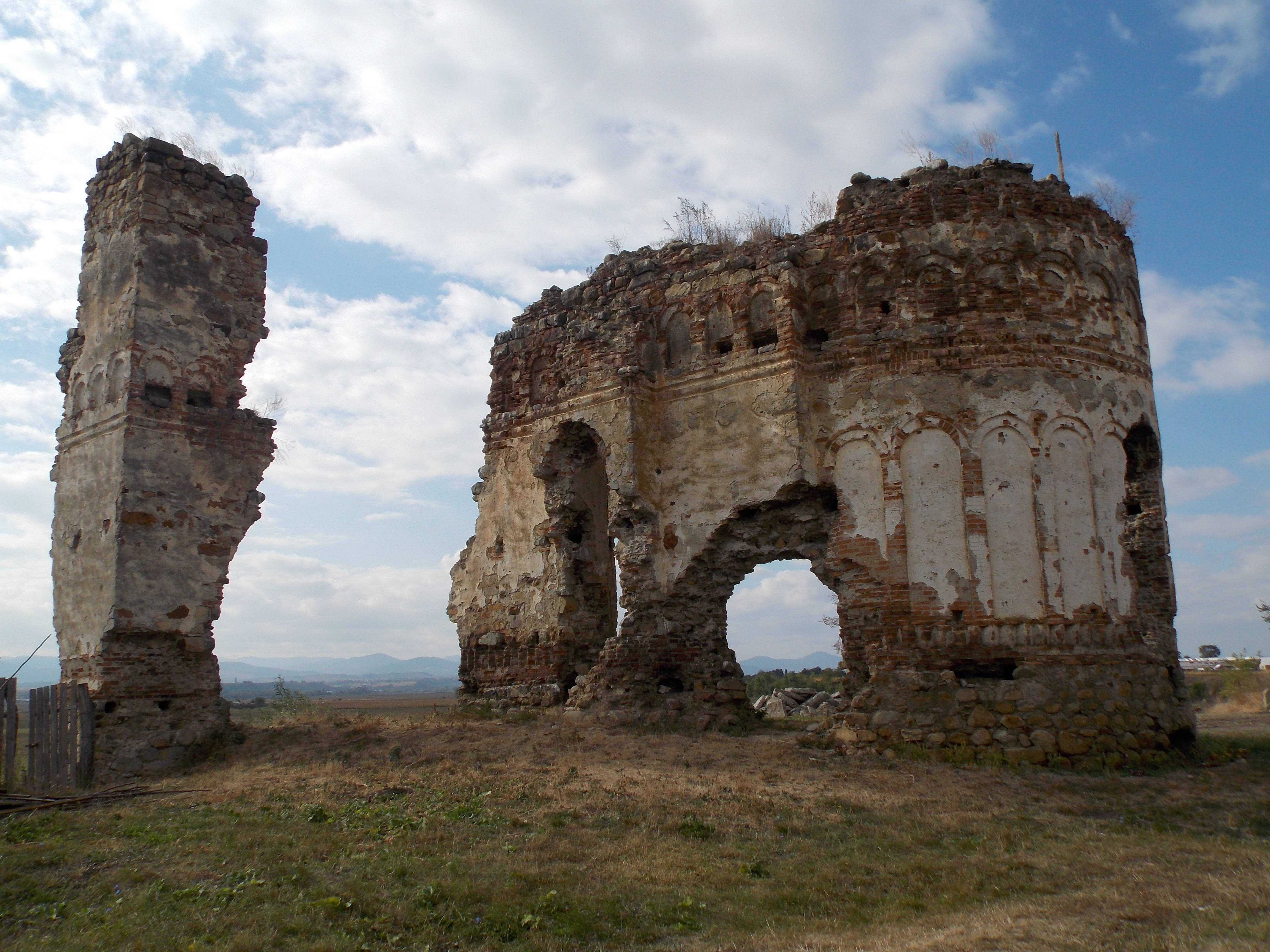 The ruins of the Bociuleşti Monastery (1629); Podoleni village, Neamț County, Romania